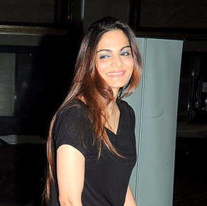 Alvira Agnihotri at Ishkq In Paris-Isabelle Adjani event